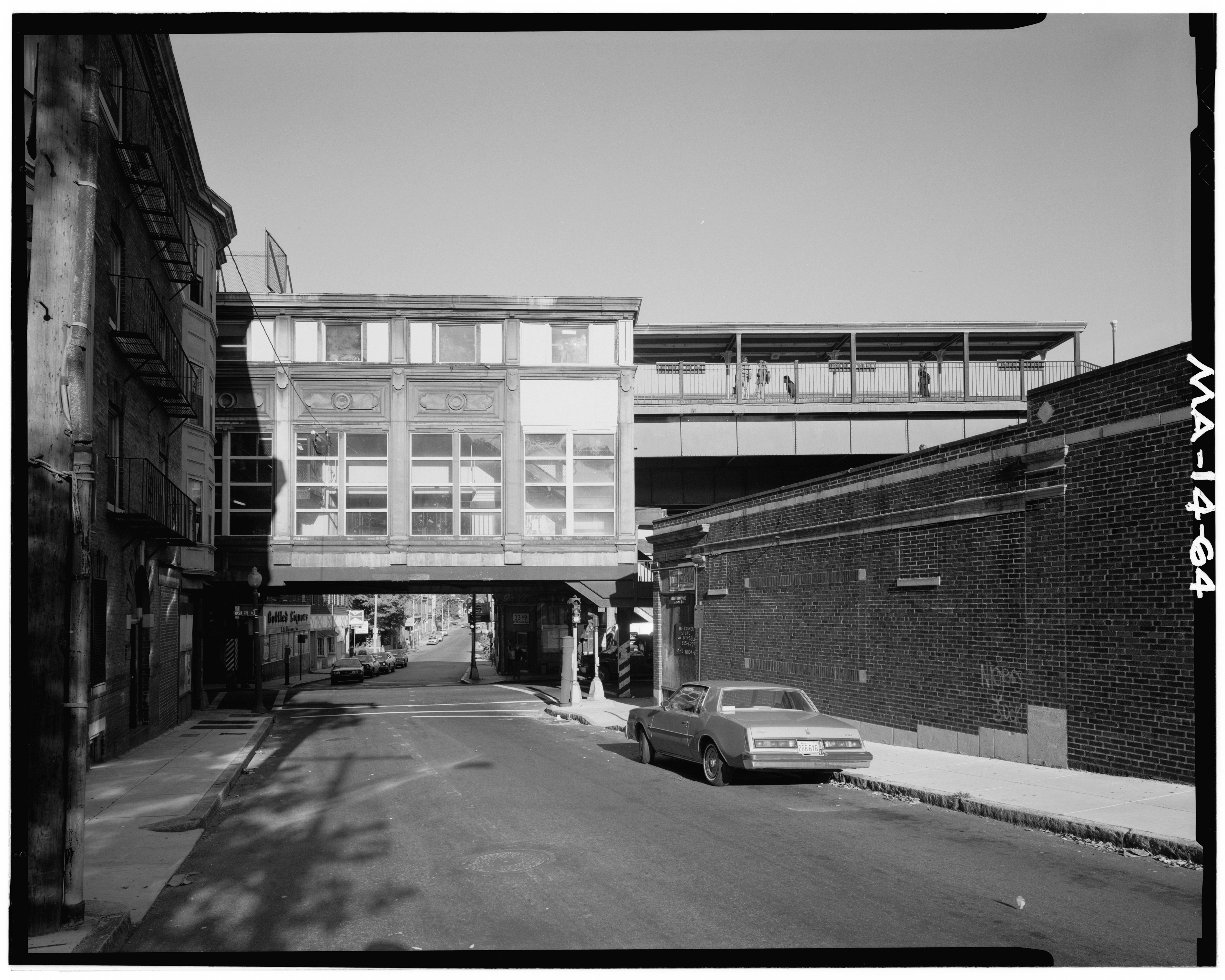 1982 photograph of Green Street station form the street belowOriginal caption: “East elevation Green Street Station - looking West - across Washington Street and along Green Street. - Boston Elevated Railway, Elevated Mainline, Washington Street, Boston, Suffolk County, MA”